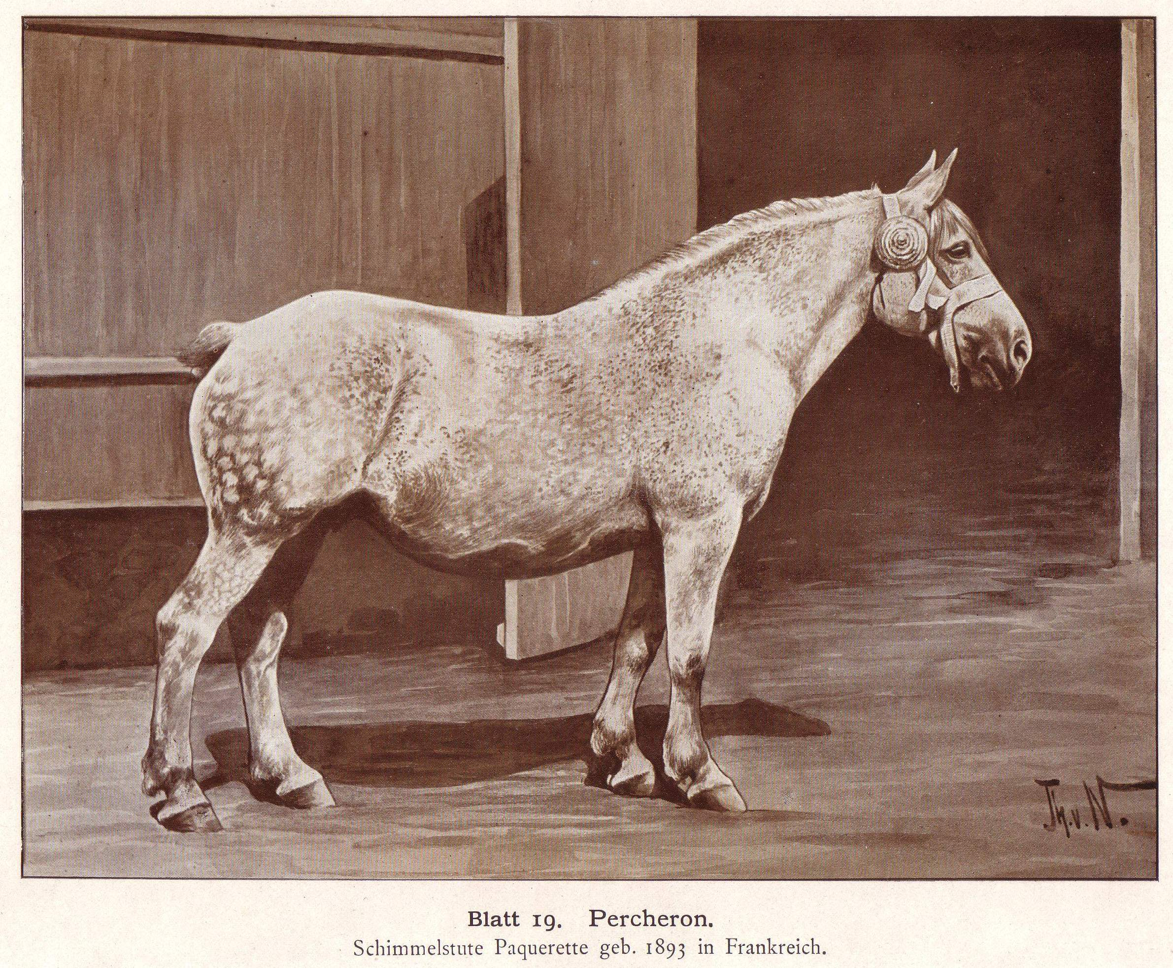 horse drawing, Percheron, female, "Paquerette", born 1893 in France